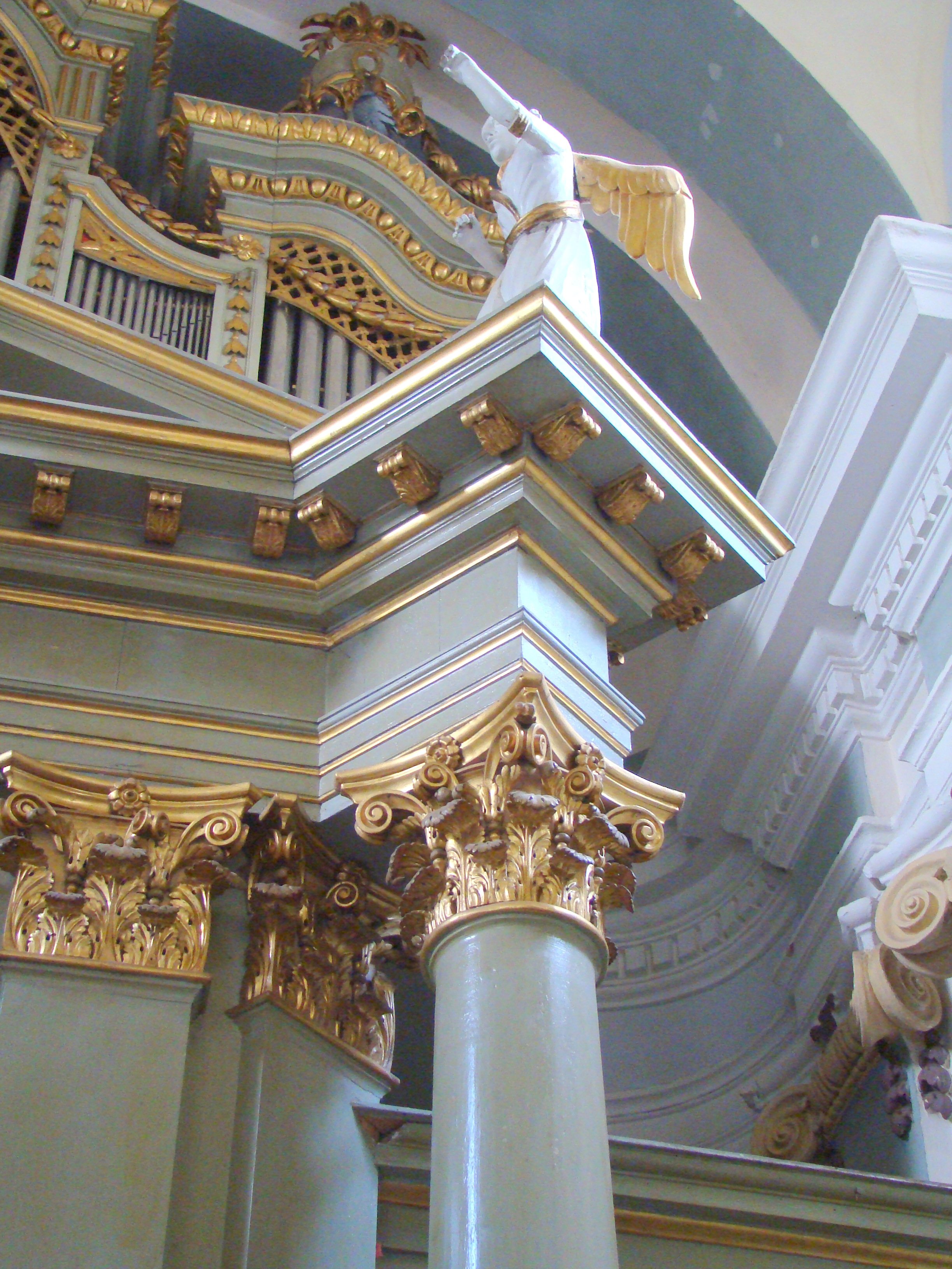 Fortified church in Criț, Brașov county, Romania